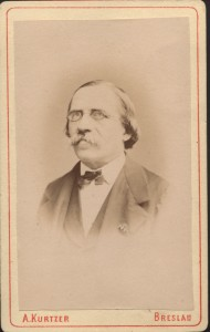 Photo of August Assmann c 1870